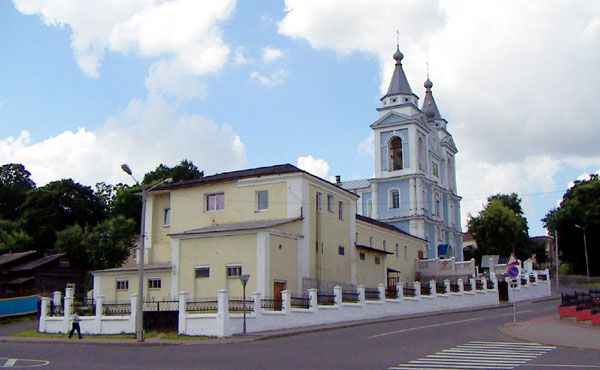 A church of St. Michael and a former monastery of cistercians, Mazyr, Belarus, July 2005.